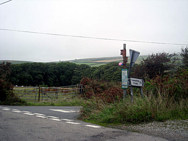 Lane junction & bus-stop at Grumbla